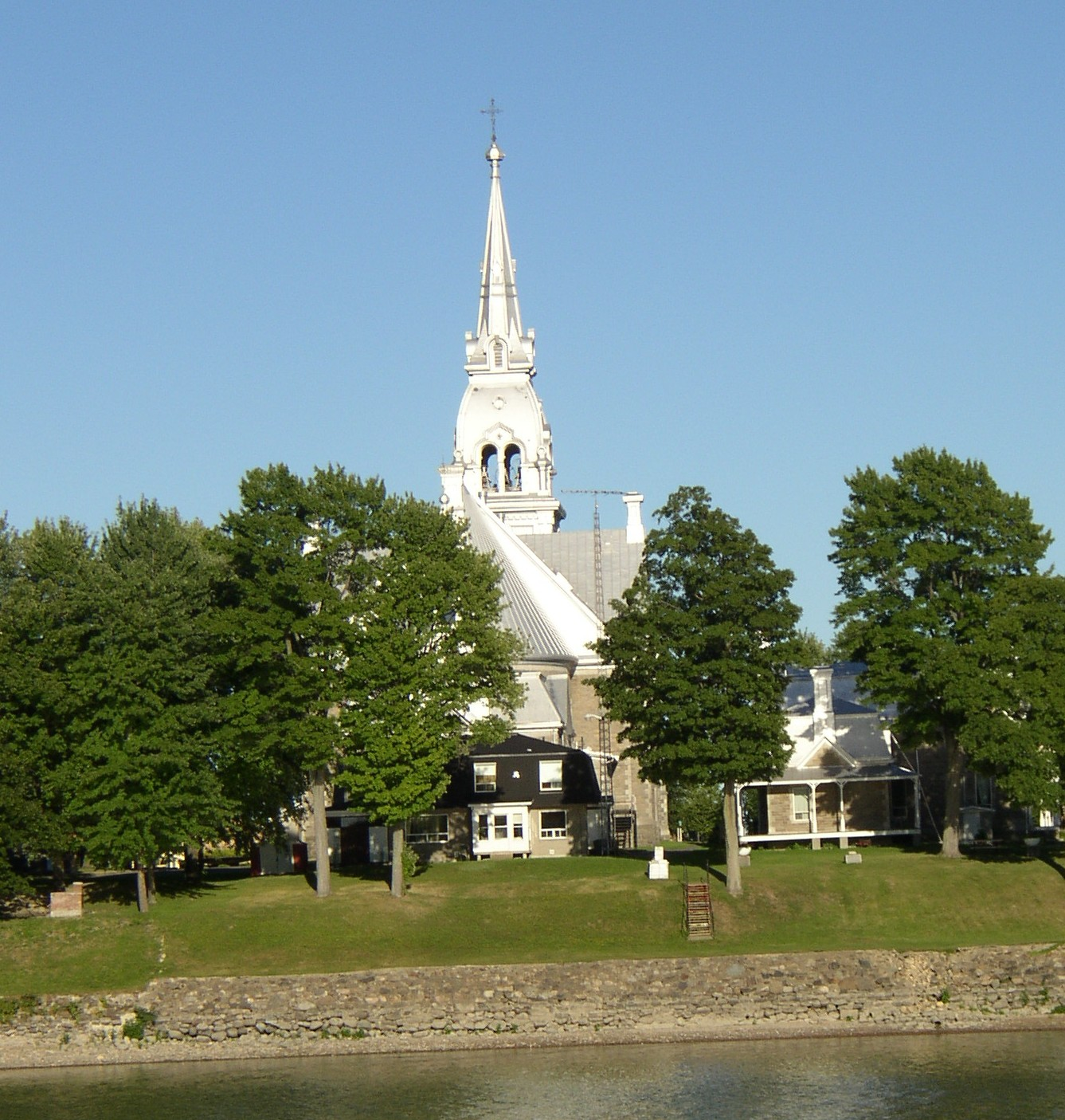 The church in Saint-Ours, Québec, Canada. Photo taken by uploader. Williamborg 02:36, 22 July 2006 (UTC)